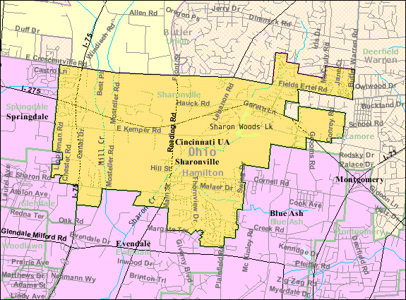 Map of Sharonville, a city in Butler and Hamilton counties in the southeastern part of the U.S. state of Ohio, with its boundaries at the time of the 2000 census.